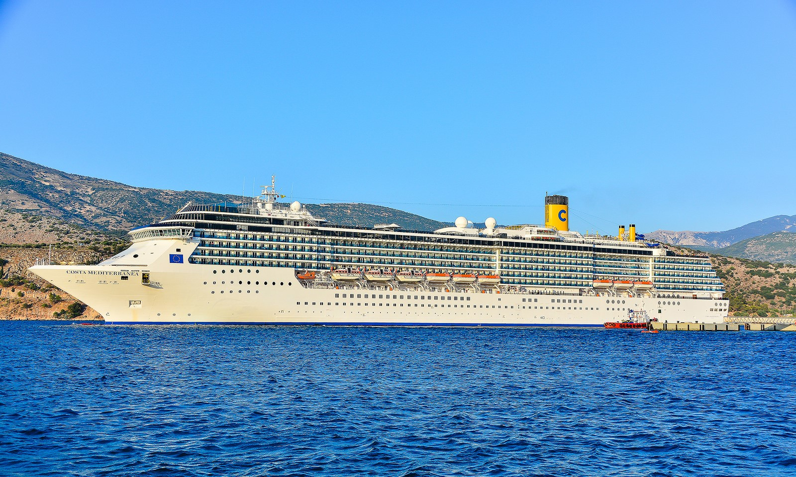 Costa Mediterranea in Argostoli